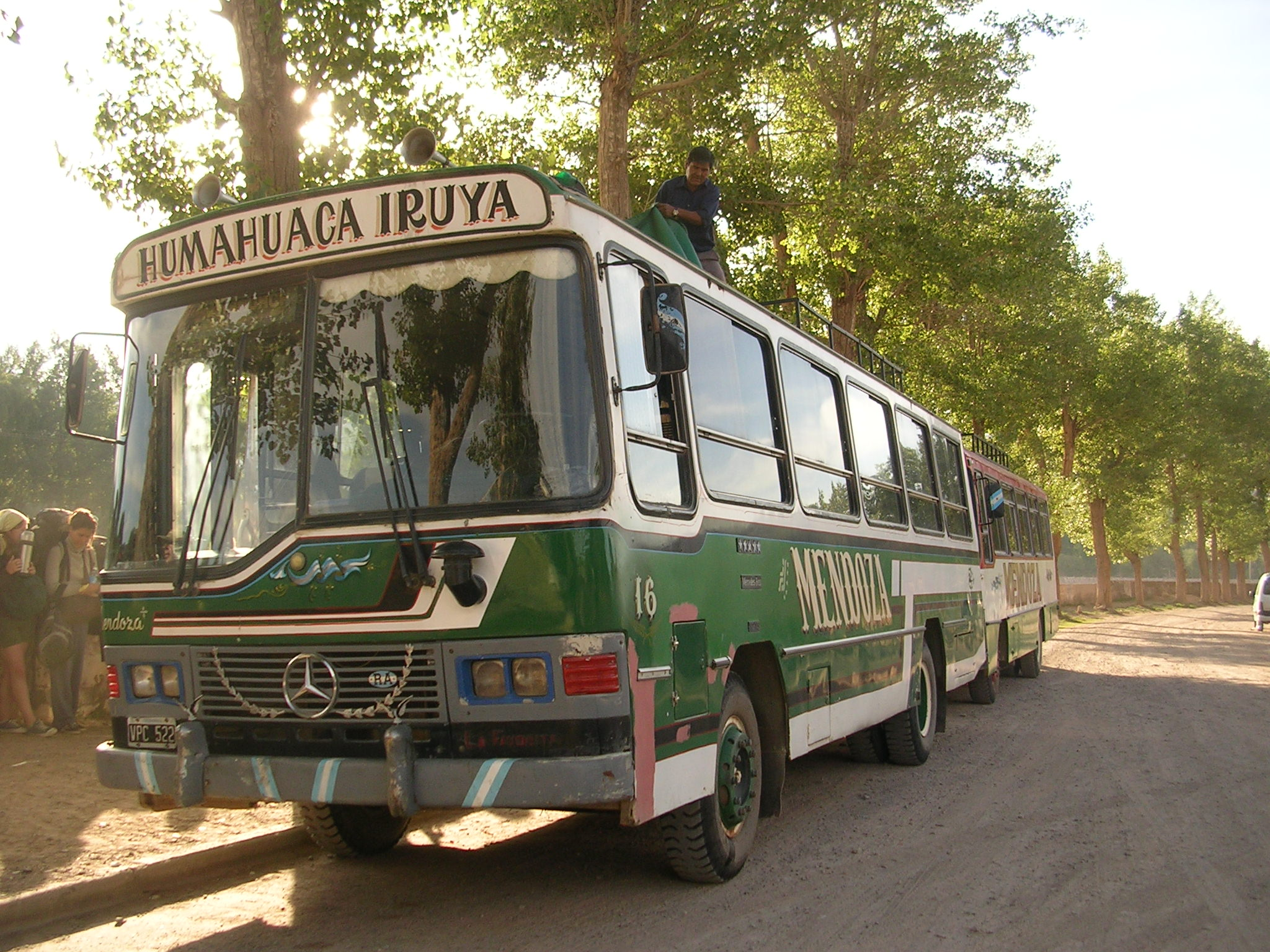 Bus (reg. VPC 522, #16) with Mercedes-Benz chassis in Jujuy Province, Argentina. Probably Mendoza operator.